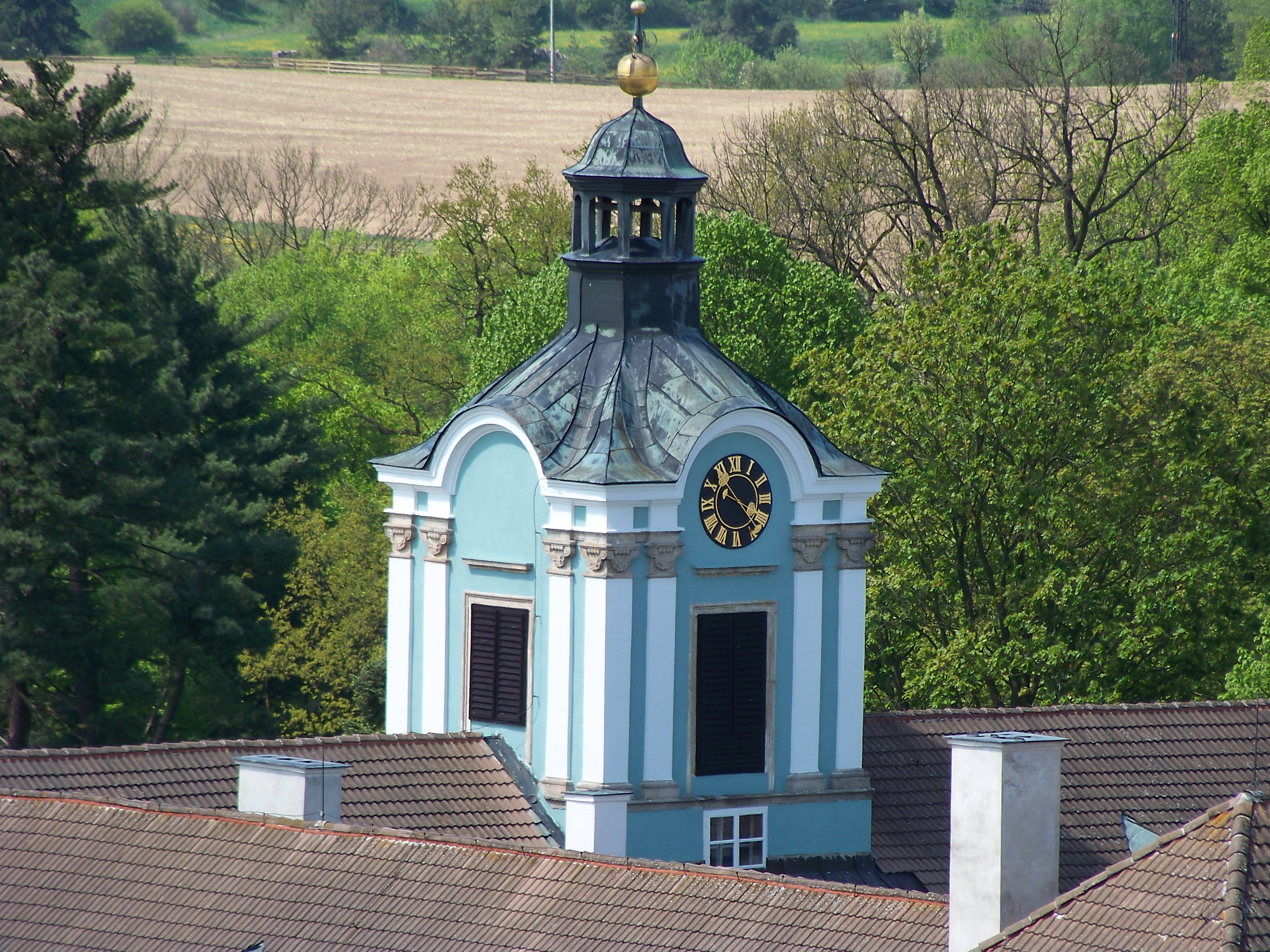 Dačice, South Bohemian Region, the Czech Republic. A view from city tower.